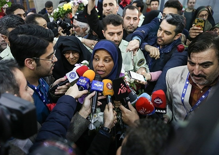 Return of Marzieh Hashemi to Iran